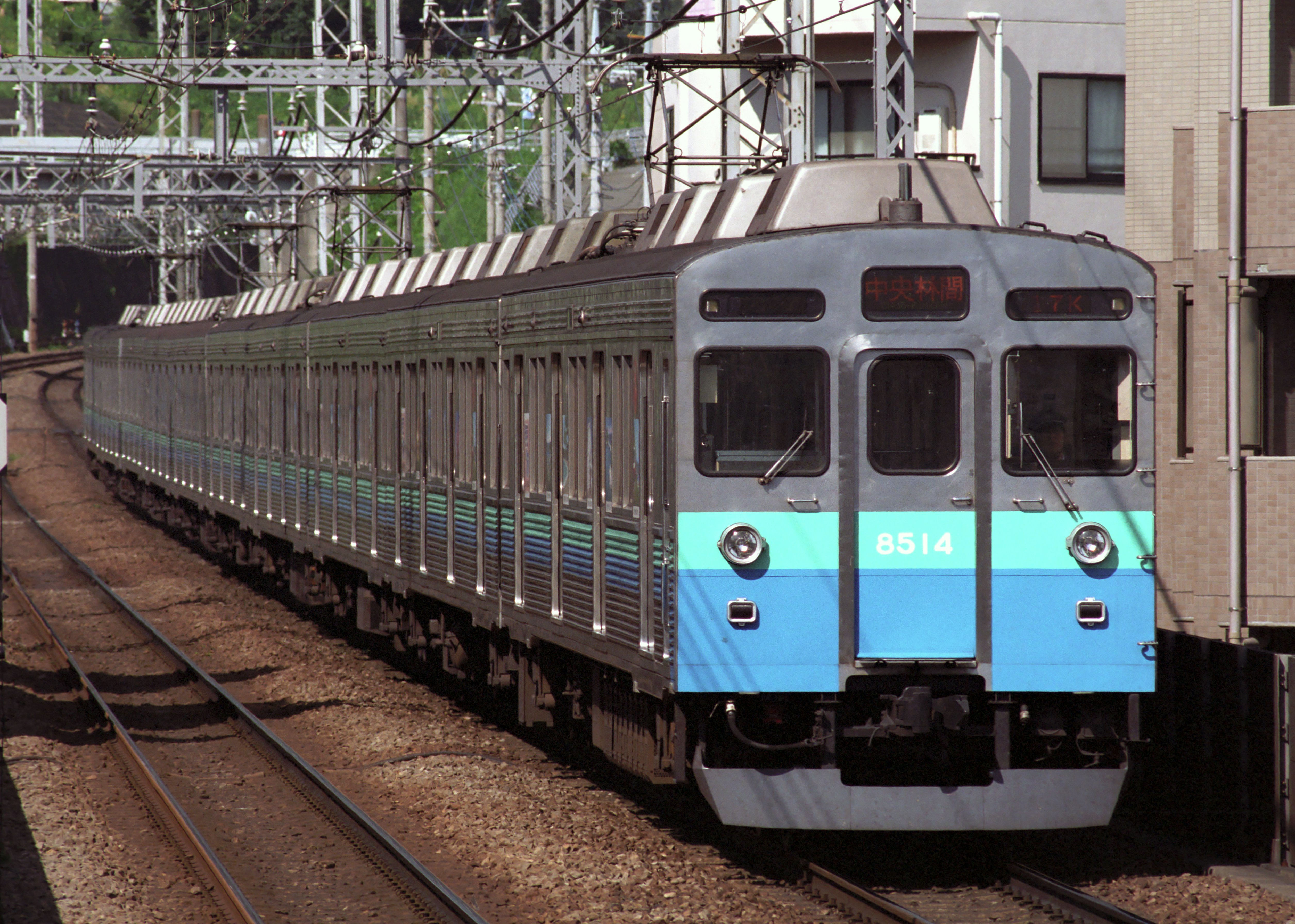 Description（説明）: Tokyu Electric Railway type 8500 Izunonatsu version（東急8500系 伊豆のなつ号） Source（出典）: Tokyu Den-en-toshi line Azamino Station（東急田園都市線 あざみ野駅） Photographer/Painter（制作者）: yaguchi（矢口） Date（製作日）: 2006-09-24